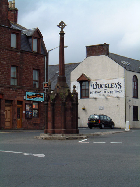 The Mercat Cross in Turriff, north east Scotland. The market cross that stands in the middle of Castle Street, dates back to the 1500s, on a base made for it in 1865. The castle from which Castle Street took its name no longer exists.